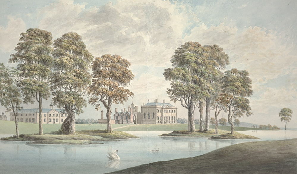 Wynstay, seat of Sir Watkins Williams Wynne, 1793